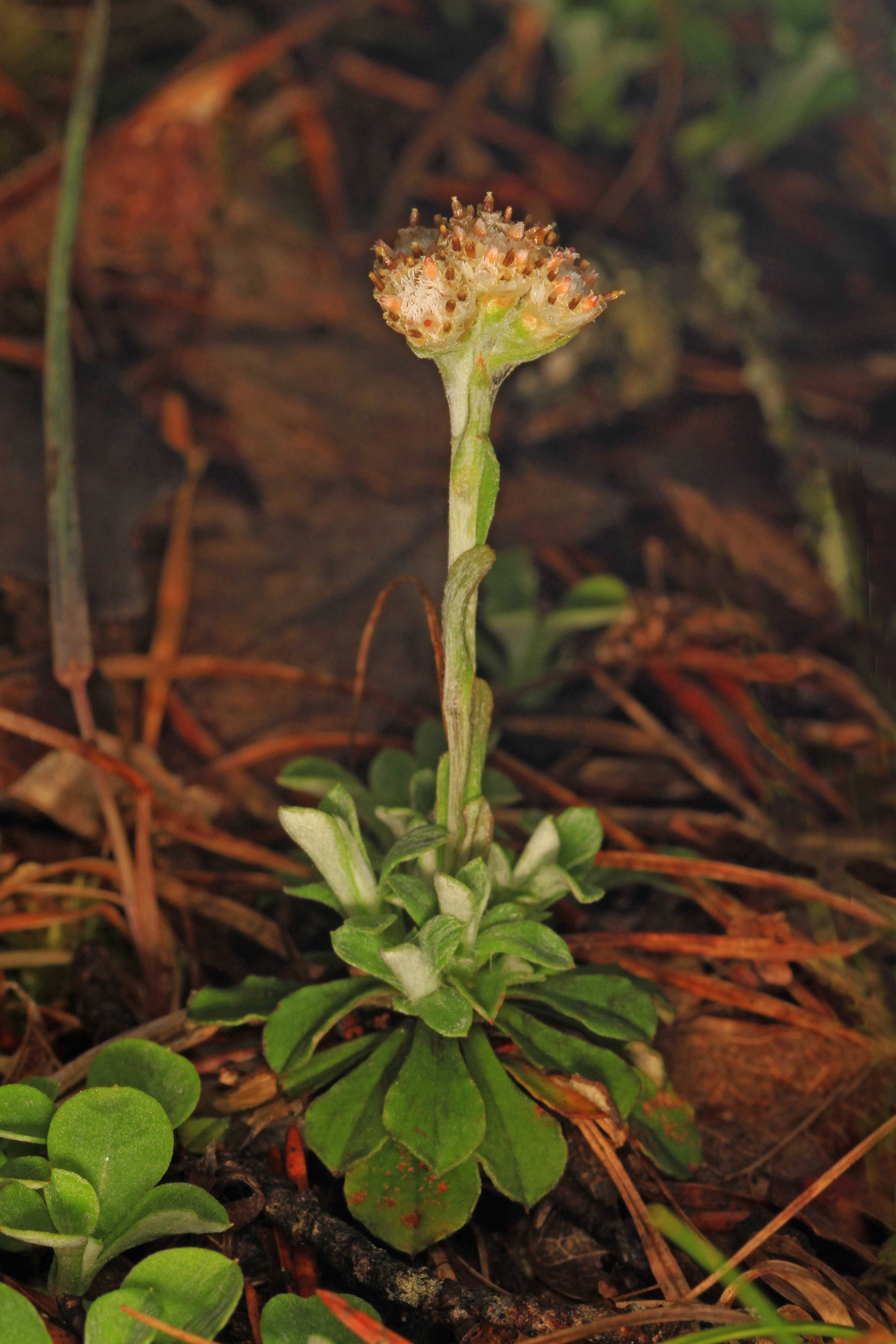 Shale Barren Pussytoes - Antennaria virginica, Green Ridge State Forest, Flintstone, Maryland.